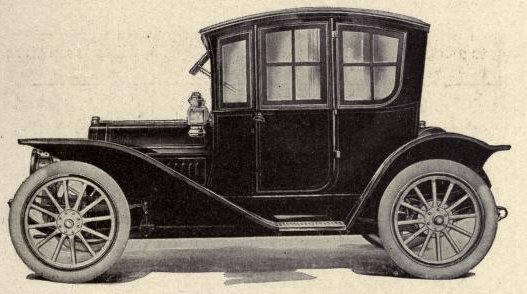 The photo is of a Regal Model H Underslung Touring Car of unknown year (likely 1912) manufactured by the Regal Motor Company of Detroit Michigan